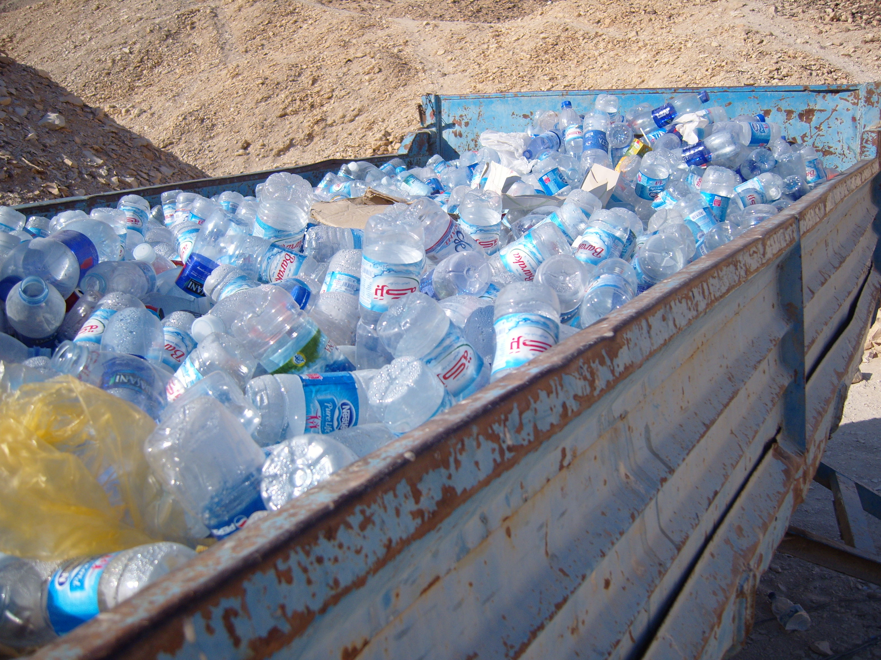 A consequence of mass tourism in the Valley of the Kings, Egypt.